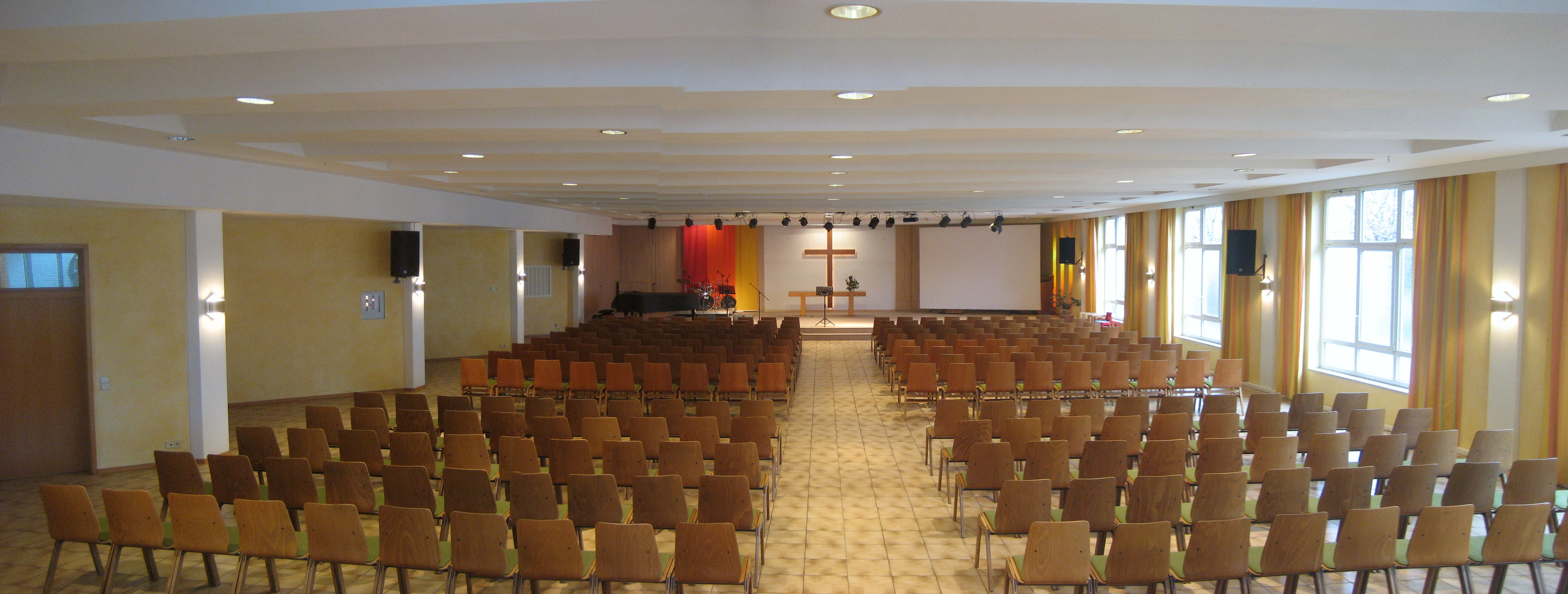 Interior of the FeG Freiburg